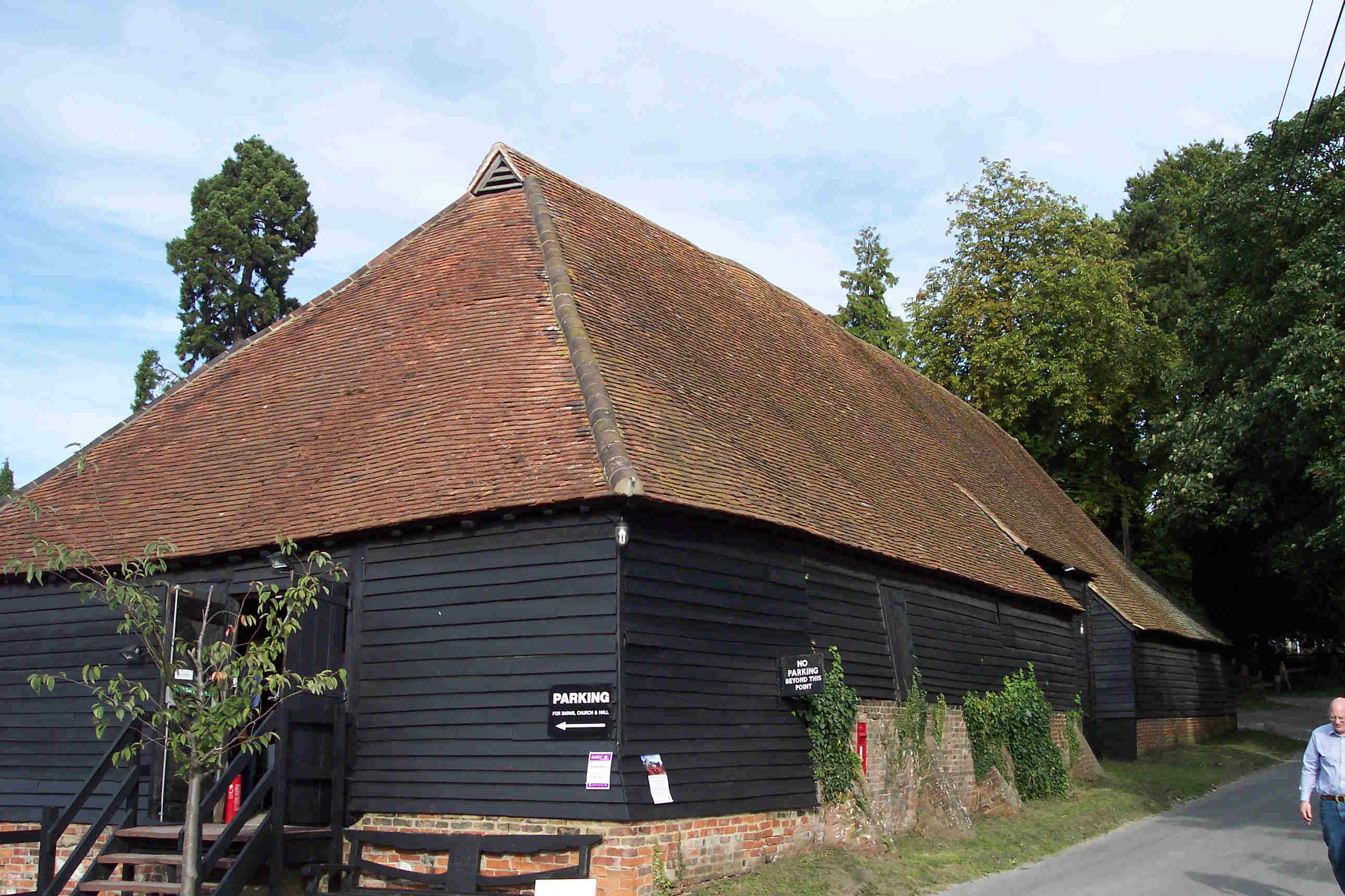 The exterior of Wanborough Great Barn. taken by myself.